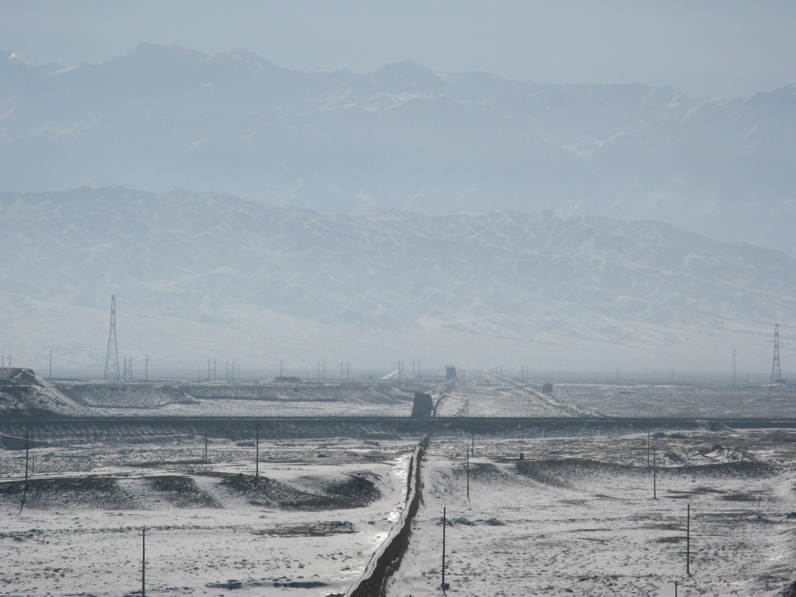 Jiayu-Pass in west end of The Great Wall